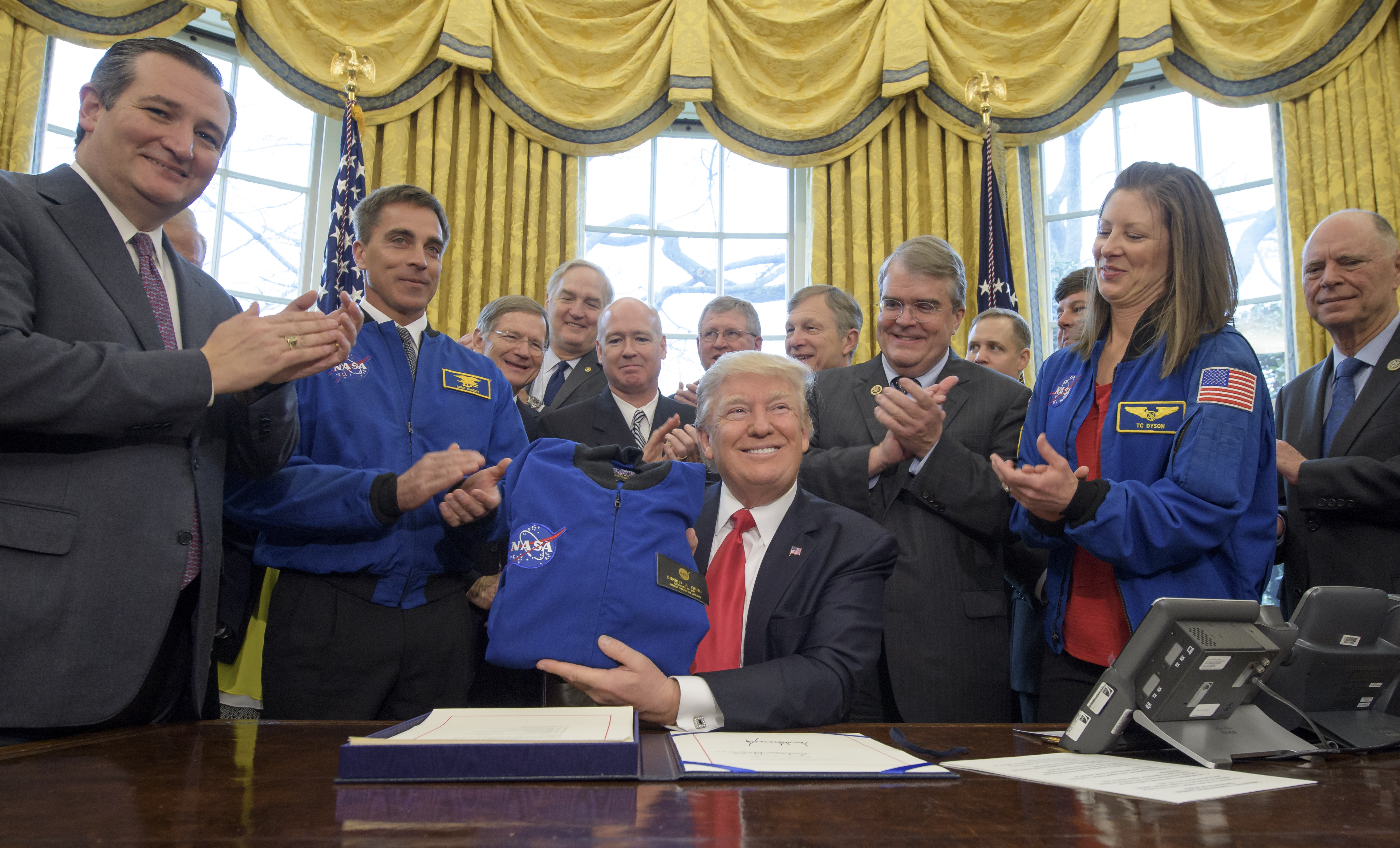 President Donald Trump, center, holds a NASA flight jacket presented to him by NASA Astronaut Office Chief Chris Cassidy, blue jacket left, after signing the NASA Transition Authorization Act of 2017, alongside members of the Senate, Congress, and National Aeronautics and Space Administration in the Oval Office of the White House in Washington, Tuesday, March 21, 2017. Also pictured, from left, Sen. Ted Cruz, R-Texas,, Sen. Bill Nelson, D-FL, NASA Astronaut Office Chief Chris Cassidy, Rep. Lamar Smith, R-Texas, Sen. Luther Strange, R-AL, Rep. Robert Aderholt, R-AL, Rep. Frank Lucas, R-OK, Rep. Brian Babin, R-Texas, Rep. John Culberson, R-Texas, Rep. Jim Bridenstine, R-OK, Rep. Steven Palazzo, R-Miss., and NASA Astronaut Tracy Caldwell Dyson.